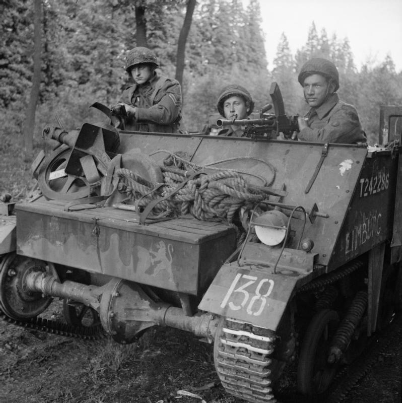 IWM caption : THE BRITISH ARMY IN NORTH-WEST EUROPE 1944-45; A Loyd carrier and crew of 15th (Scottish) Division. Comment : The vehicle has Dutch army marking, and the men are more likely of the Royal Netherlands Motorized Infantry Brigade.